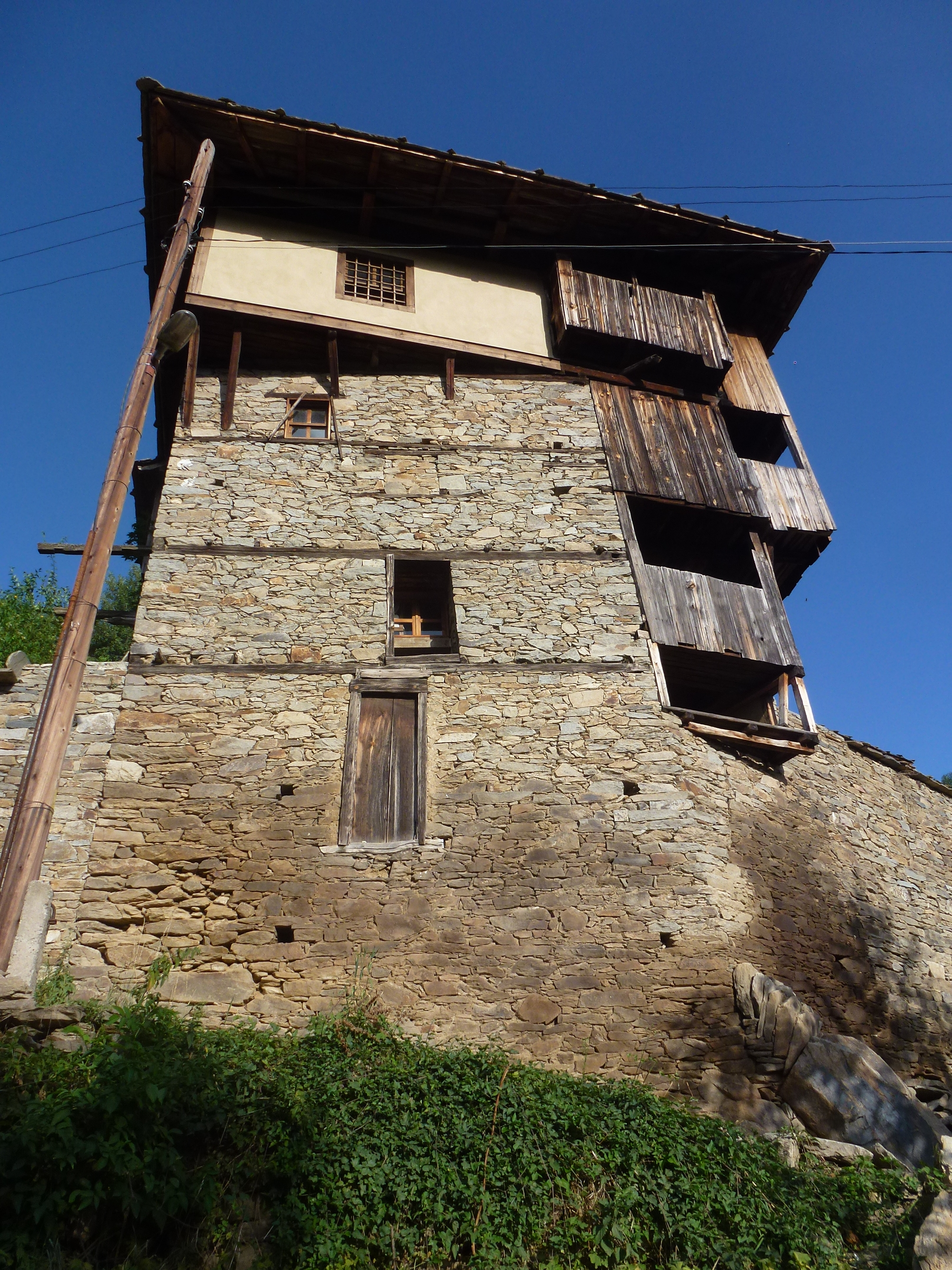 One of the highest residential houses in Bulgaria, Kovachevitza. The limited space and the rough terrain forced the population of the village to build towards the sky. Normal renaissance buildings of that time were about 2 floors high